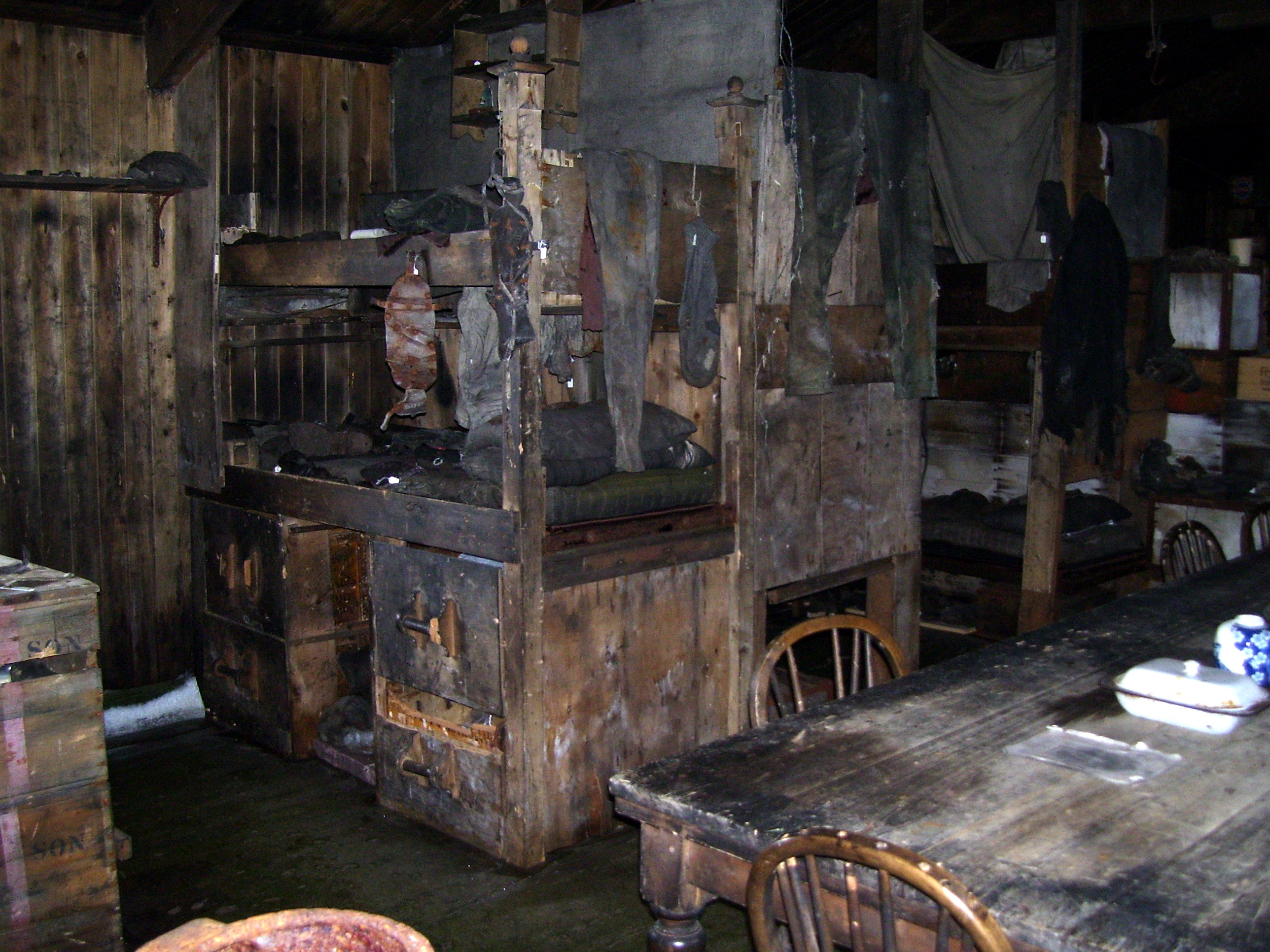 Inside Scott's Hut at Cape Evans